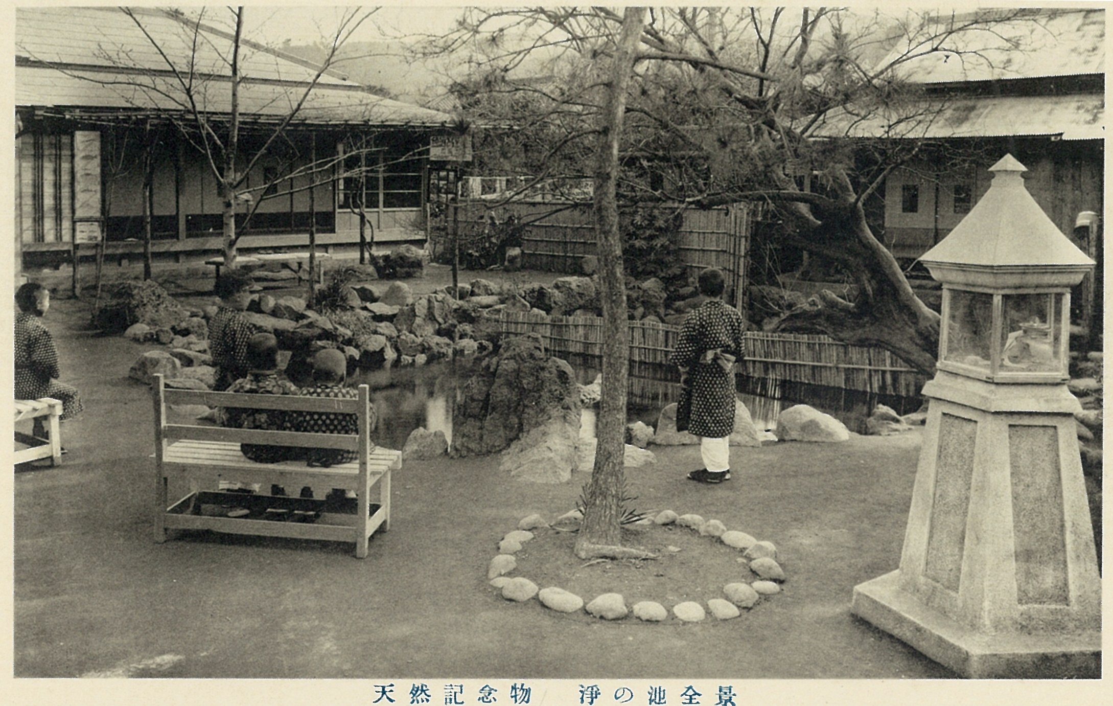 Jono-ike pond postcard.1930s